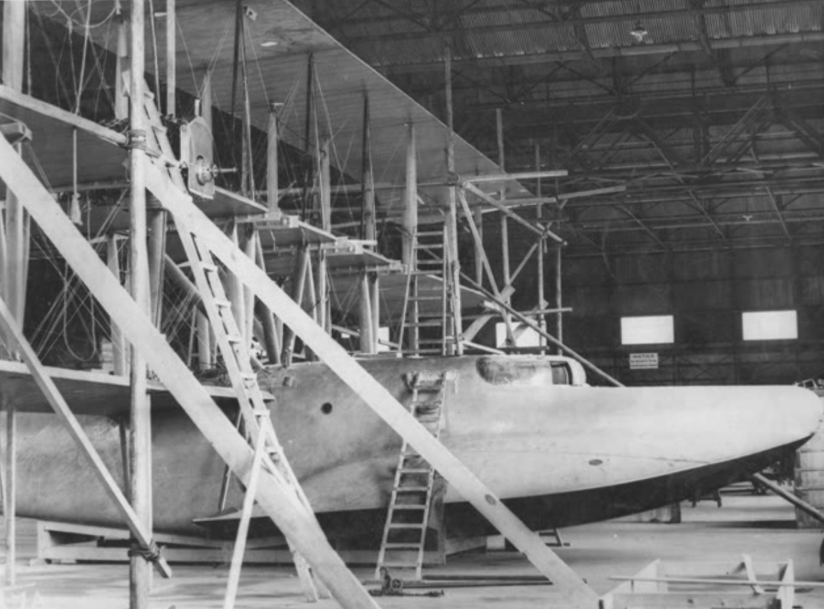 Photograph of Curtiss Model T Wanamaker Triplane partially constructed at RNAS Felixstowe.